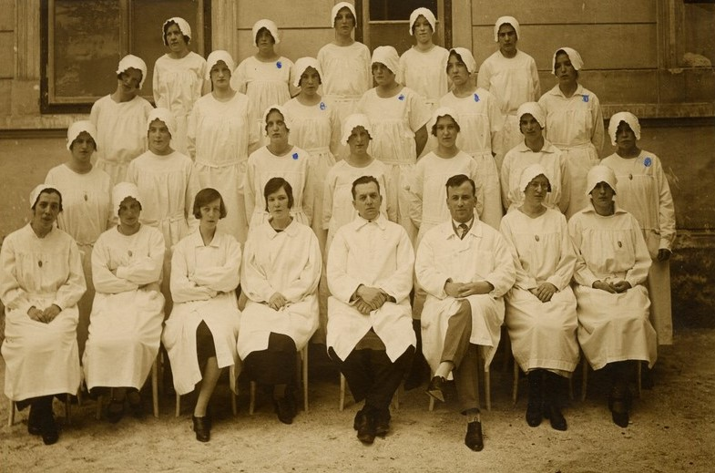 Dr Matija Ambrožić with students of the 2nd generation of the School for the Protection of Mothers and Children in Belgrade.